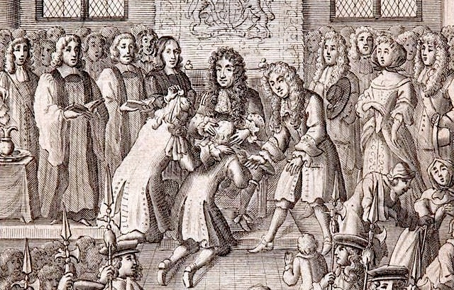 Charles_II_touching_the_scrofulous